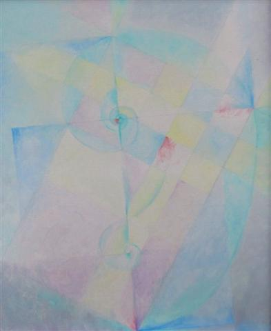 "Double Spirale sur le Symbolisme de la Croix" de René-Maria Burlet, oil on canvas, 1976